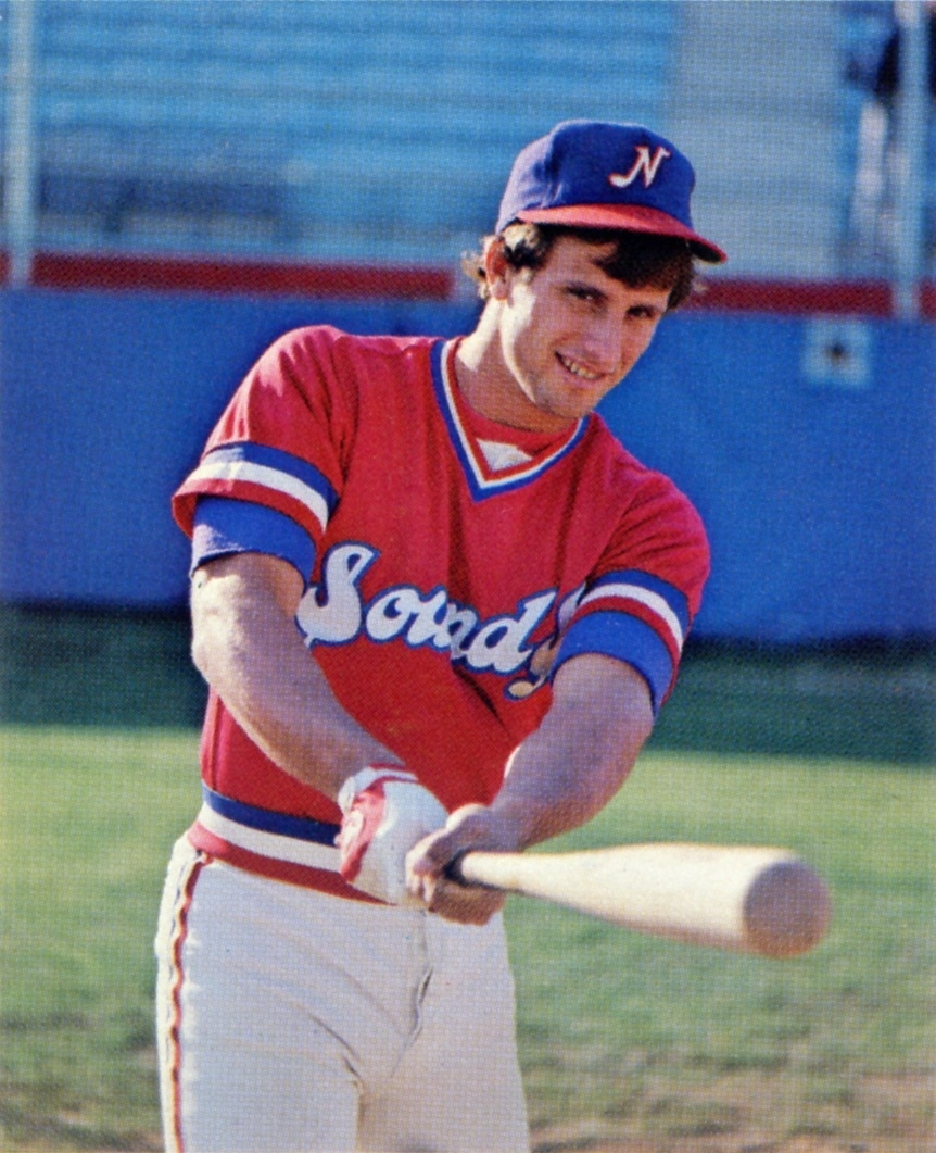 Outfielder Duane Walker of the 1979 Nashville Sounds Minor League Baseball team of the Southern League